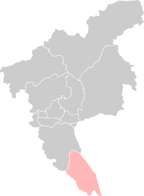 A Blank Map of Guangzhou Map